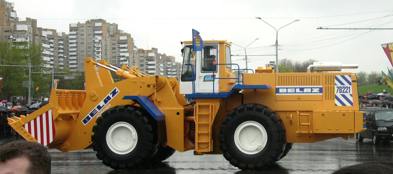 Belaz 78221 on Victory Day parade in Minsk